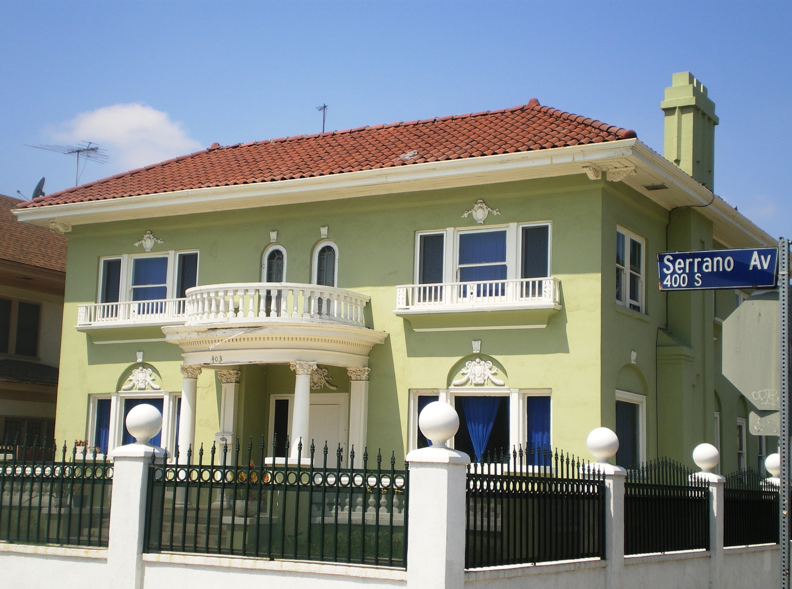 House at 403 S. Serrano Ave., Los Angeles, California (South Serrano Avenue Historic District)